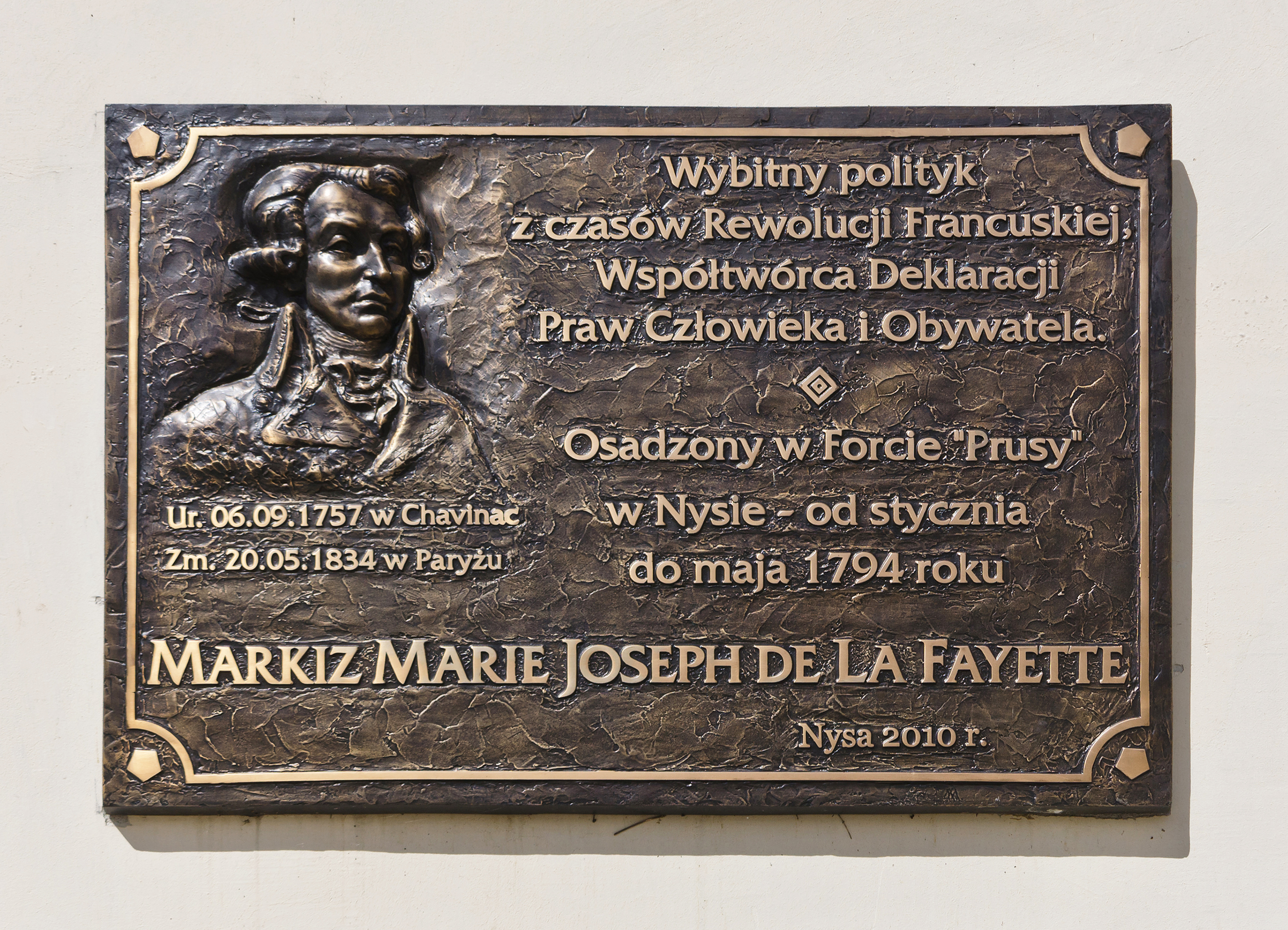 St. Jadwiga Bastion in Nysa, Gilbert du Motier, Marquis de La Fayette's plaque